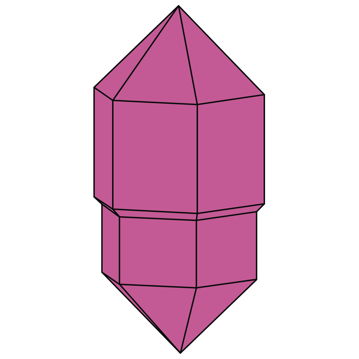 Drawing of a scepter-shaped mallestigite crystal; reference: G. Schnorrer (2003), Der Aufschluss Vol. 54, page 42